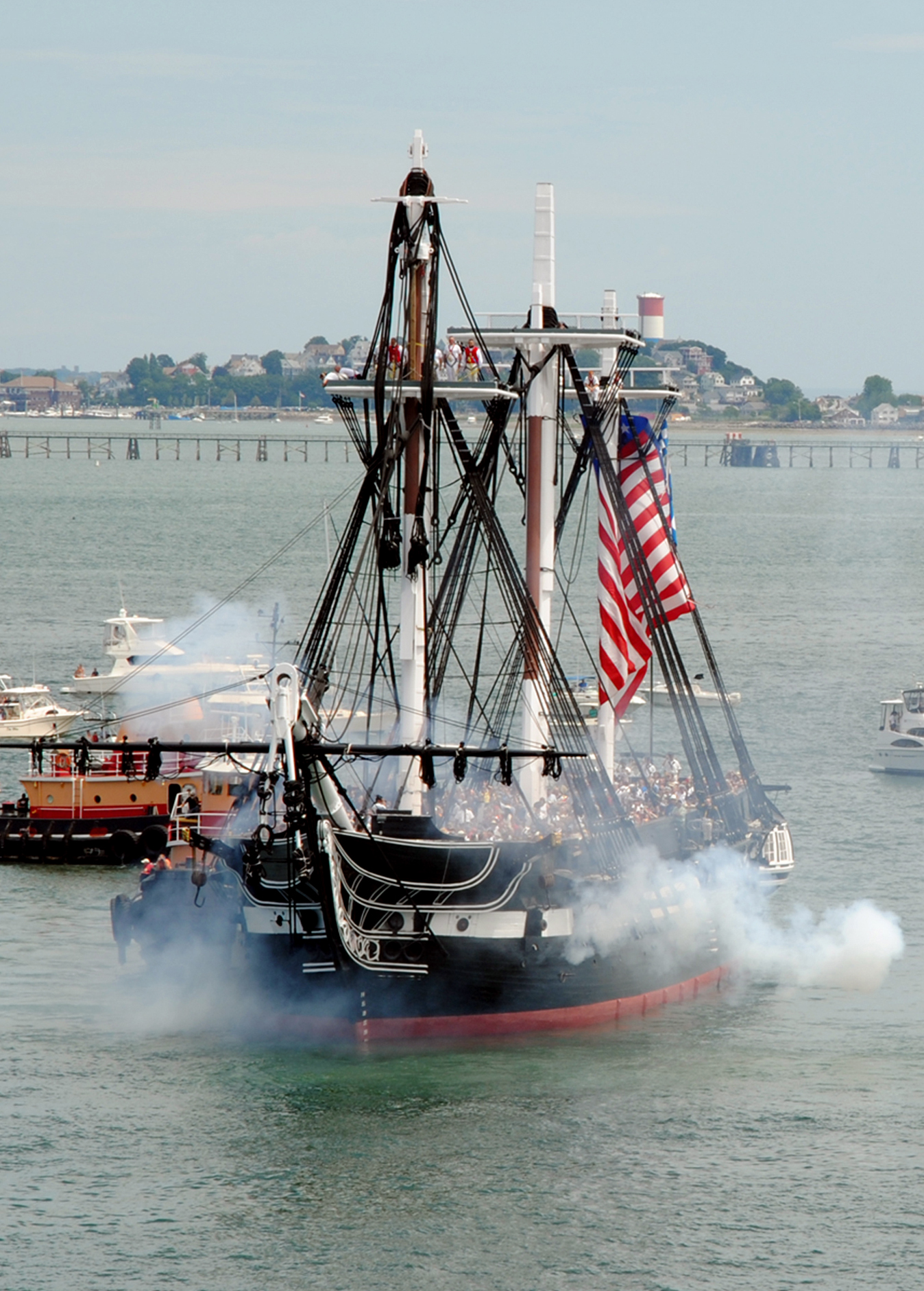 BOSTON (July 4, 2010) USS Constitution fires a 21-gun salute toward Fort Independence on Castle Island during the ship's July 4th underway. The underway is one of the last major events of Boston Navy Week, June 30-July 5. Boston Navy Week is one of 20 Navy Weeks planned across America for 2010. Navy Weeks show Americans the investment they have made in their Navy and increase awareness in cities that do not have a significant Navy presence. (U.S. Navy photo by Seaman Apprentice Shannon S. Heavin)